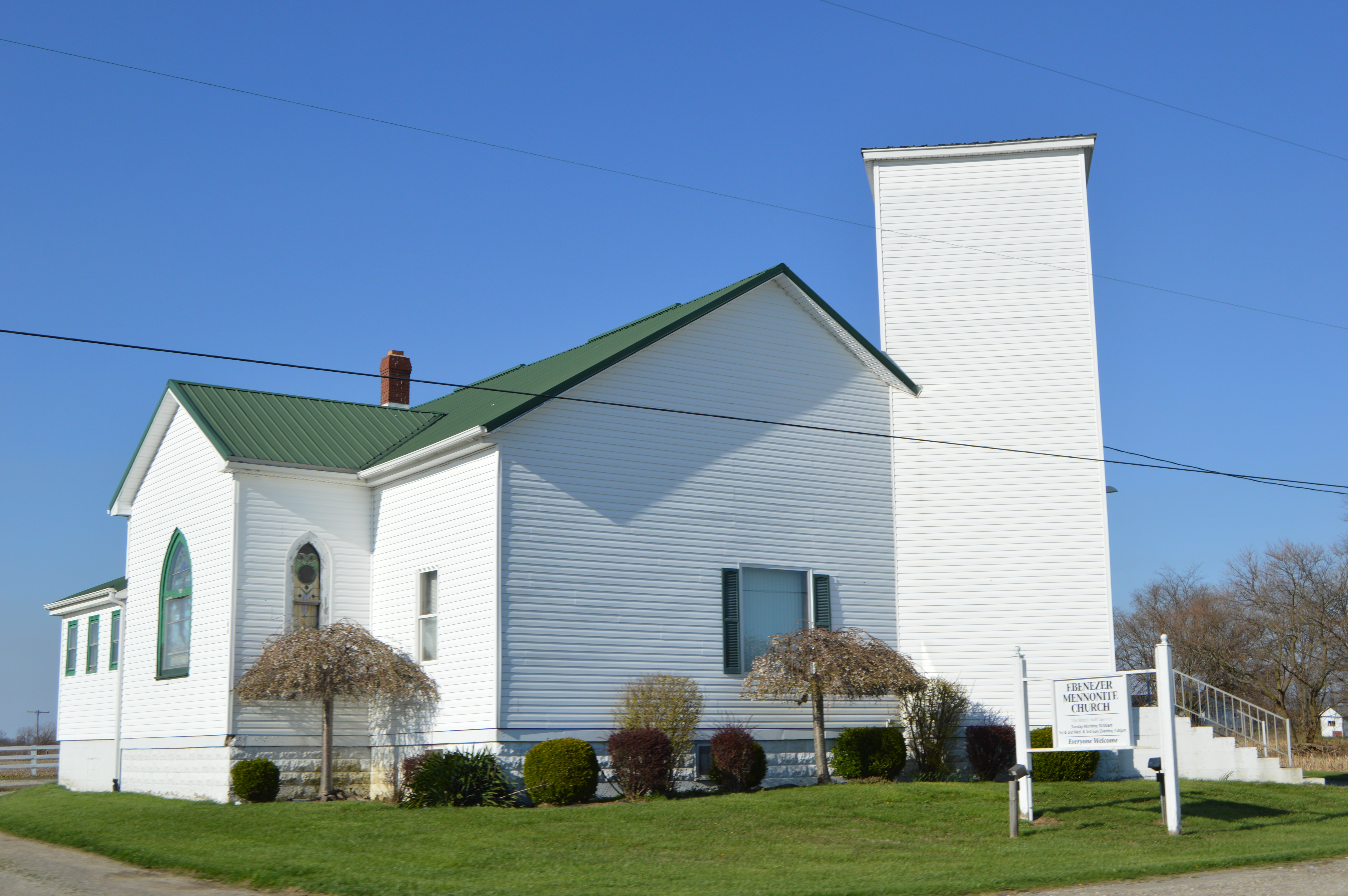 Front and western side of Ebenezer Mennonite Church, located at 5125 W. U.S. Route 40 at Gettysburg in Jefferson Township, Preble County, Ohio, United States. It was built in 1910.